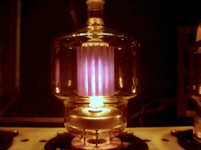 Tube in the 1000 Watt standby transmitter for CKCI 1350 AM Parksville. (now gone and replaced by CIBH 88.5 FM) This was once the standby transmitter for CKEG 1350 AM Nanaimo.